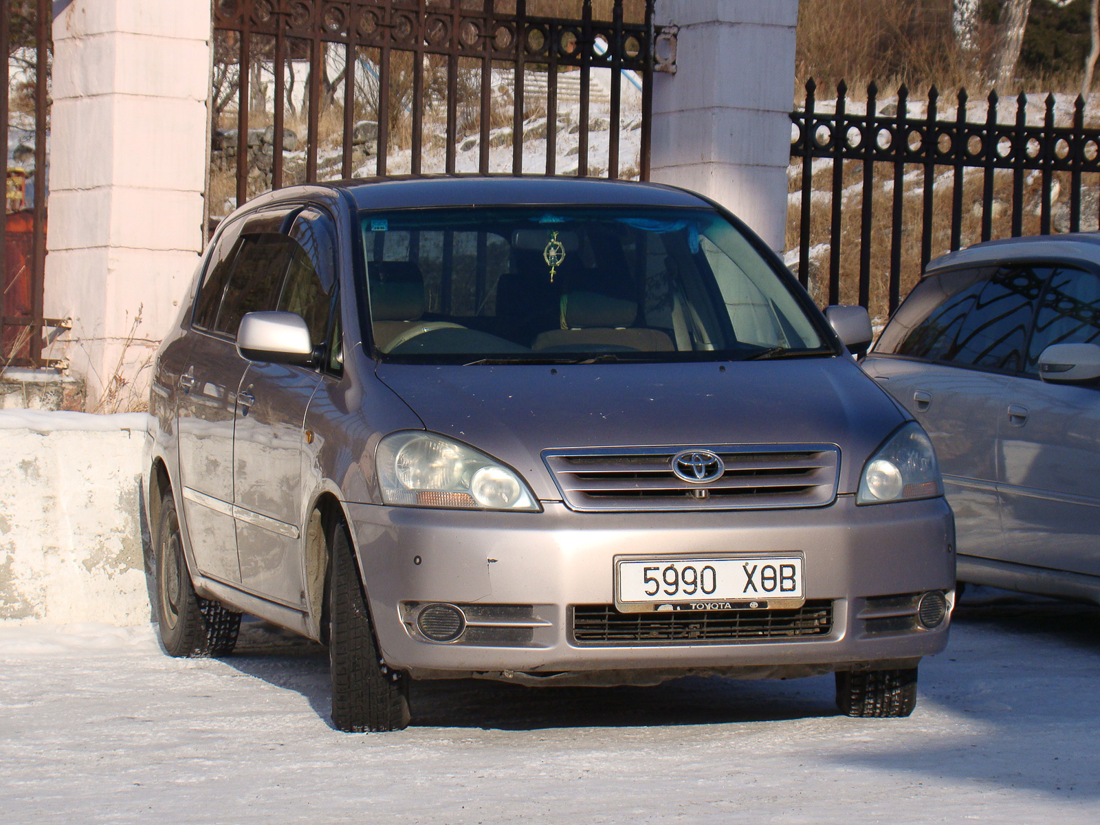 Regional affiliation of license plate (ХӨ) — Khubsugul aimag (Хөвсгөл аймаг)